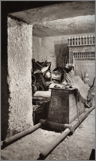 1922 photograph of the tomb of Tutankhamun. This photograph was made by Harry Burton (1879-1940), who made the photographs at the opening of the Tomb of Tutanhkamun in the Egyptian Valley of Kings by Howard Carter and Lord Carnarvon in 1922. Burton was regarded to be the outstanding archaeological photographer of his era. Many of Burton's photographs are in the archives of the Metropolitan Museum of Art.